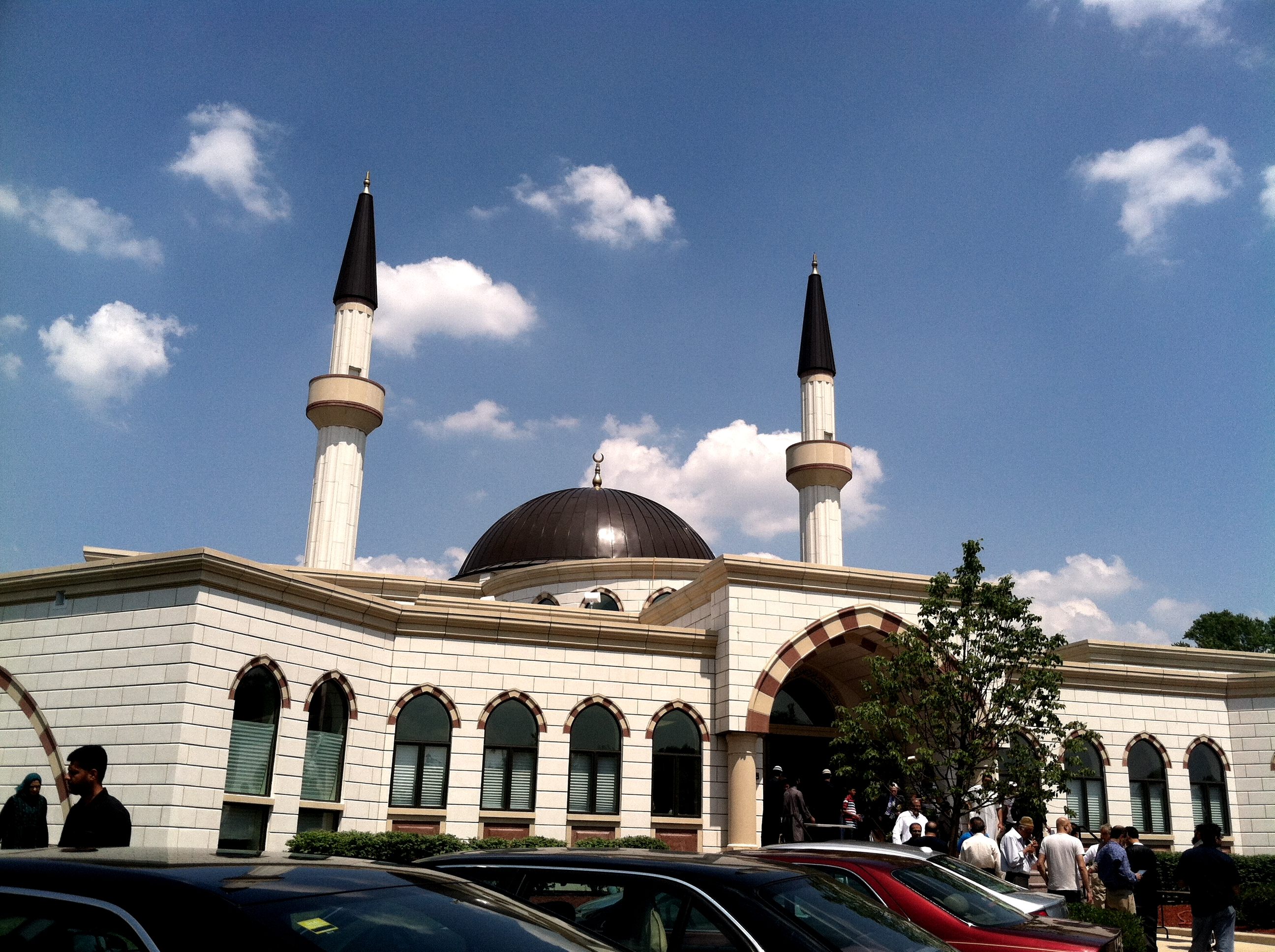 An exterior view of Masjid DarusSalam in Lombard, Illinois